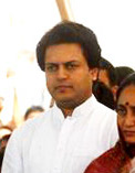 Politician Amit Deskhmukh; son of ex-Chief Minister of Maharashtra Vilasrao Deskhmukh